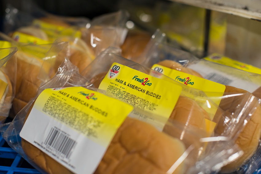 Quality Dairy Commissary